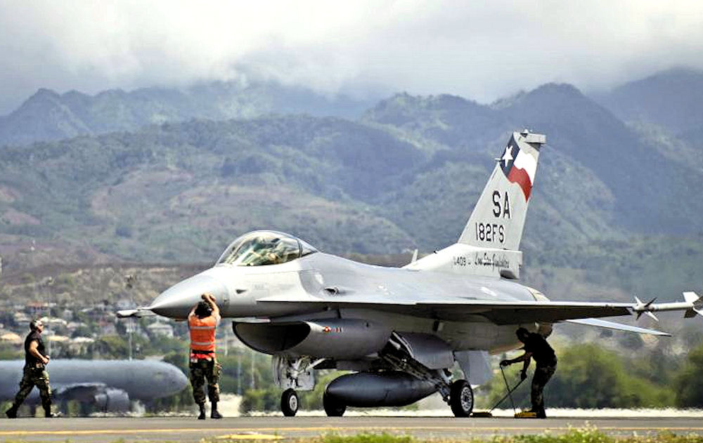 Crew chiefs recover their F-16 after it returned to Hickam AFB, Hawaii from an air to air mission on September 8th, 2006 during Exercise Sentry Aloha. The crew chiefs are from the Texas Air National Guard 149th FW. [USAF photo by TSgt. Shane A. Cuomo]